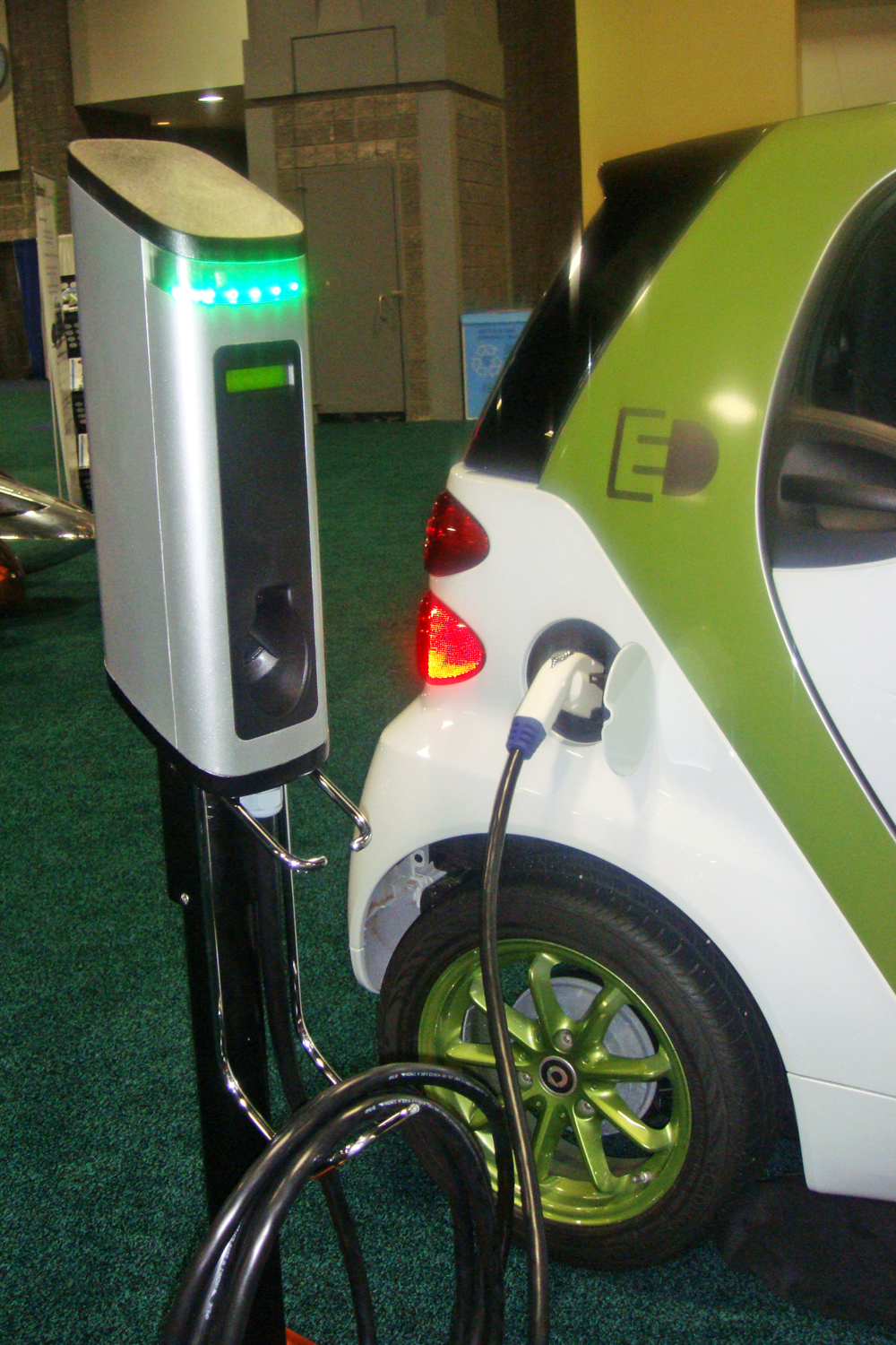 Smart ED electric car with SemaConnect EVSE charging station exhibited at the 2011 Washington Auto Show